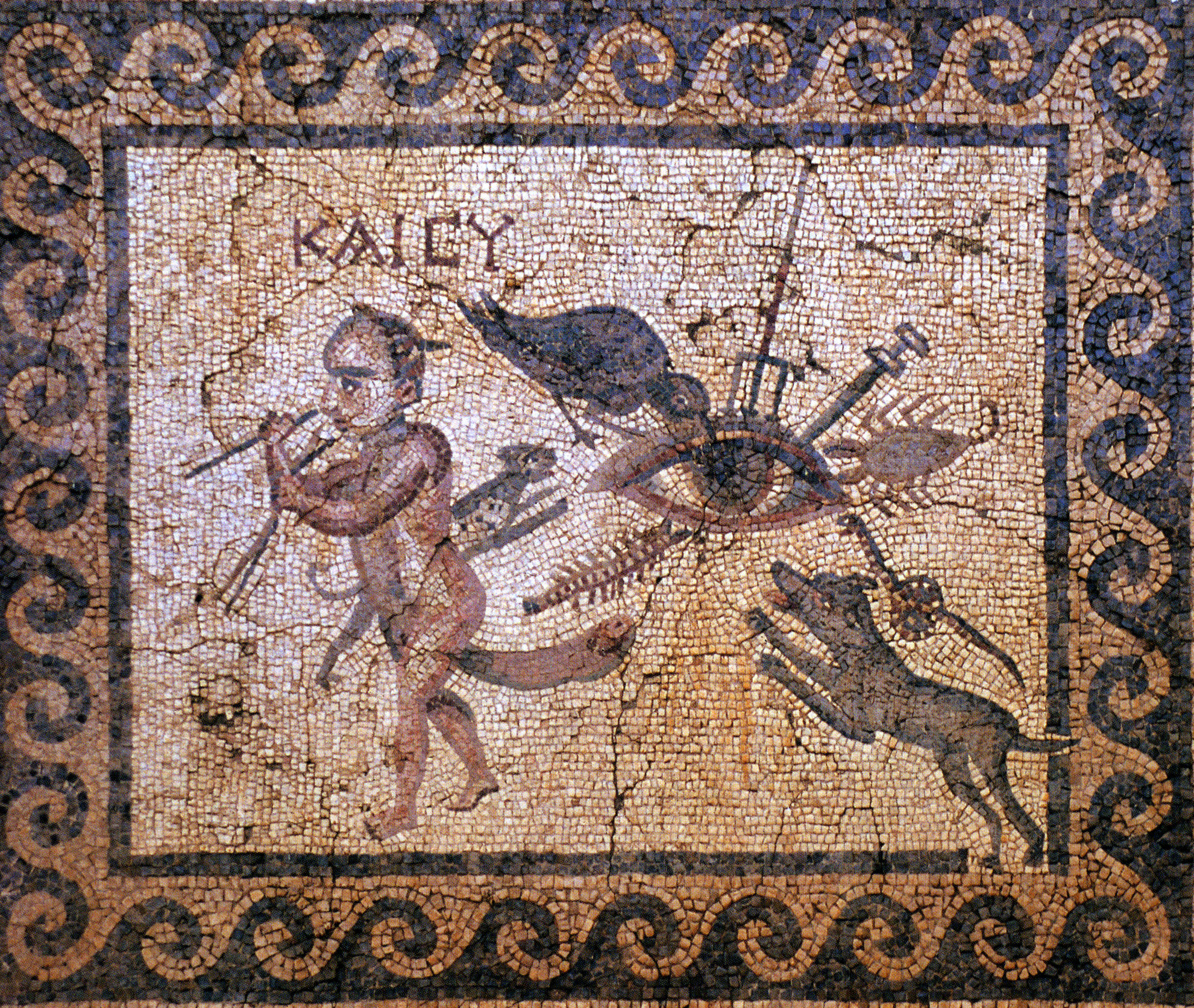 Attacking the evil eye: The eye is pierced by a trident and sword, pecked by a raven, barked at by a dog and attacked by a centipede, scorpion, cat and a snake. A horned dwarf with a gigantic phallus crosses two sticks. Greek annotation "KAI SU" meaning "and you (too)". Roman mosaic from Antiochia, House of the Evil Eye. Hatay Arkeoloji Müzesi, Antakya, Inv.-Nr. 1024